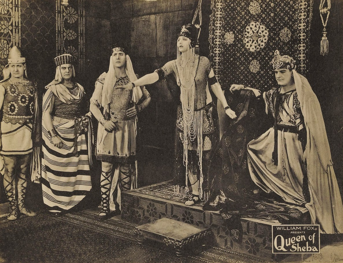 Betty Blythe in The Queen of Sheba (1921).